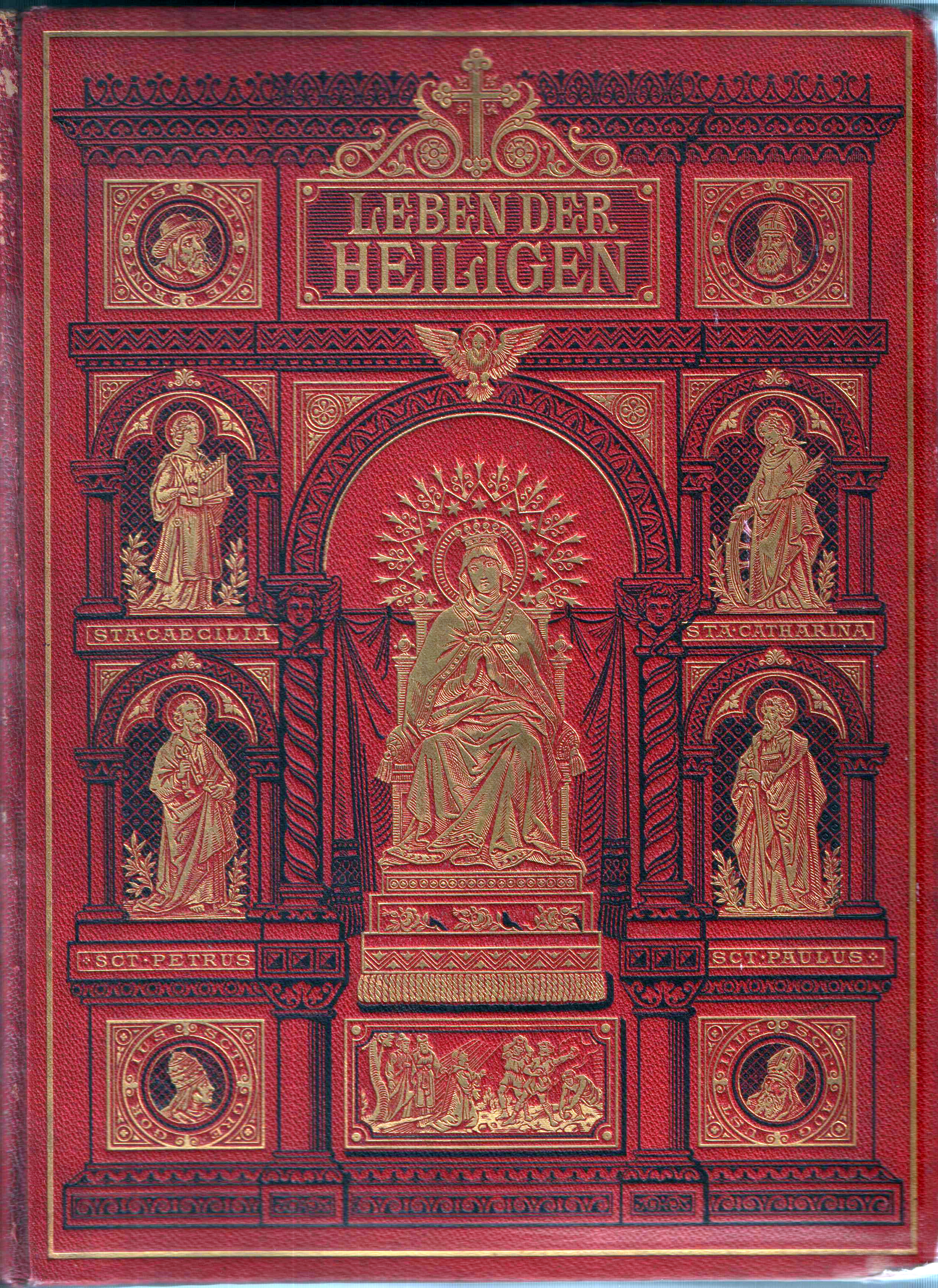 Cover of book Leben der Heiligen better colour (Life of Saints)